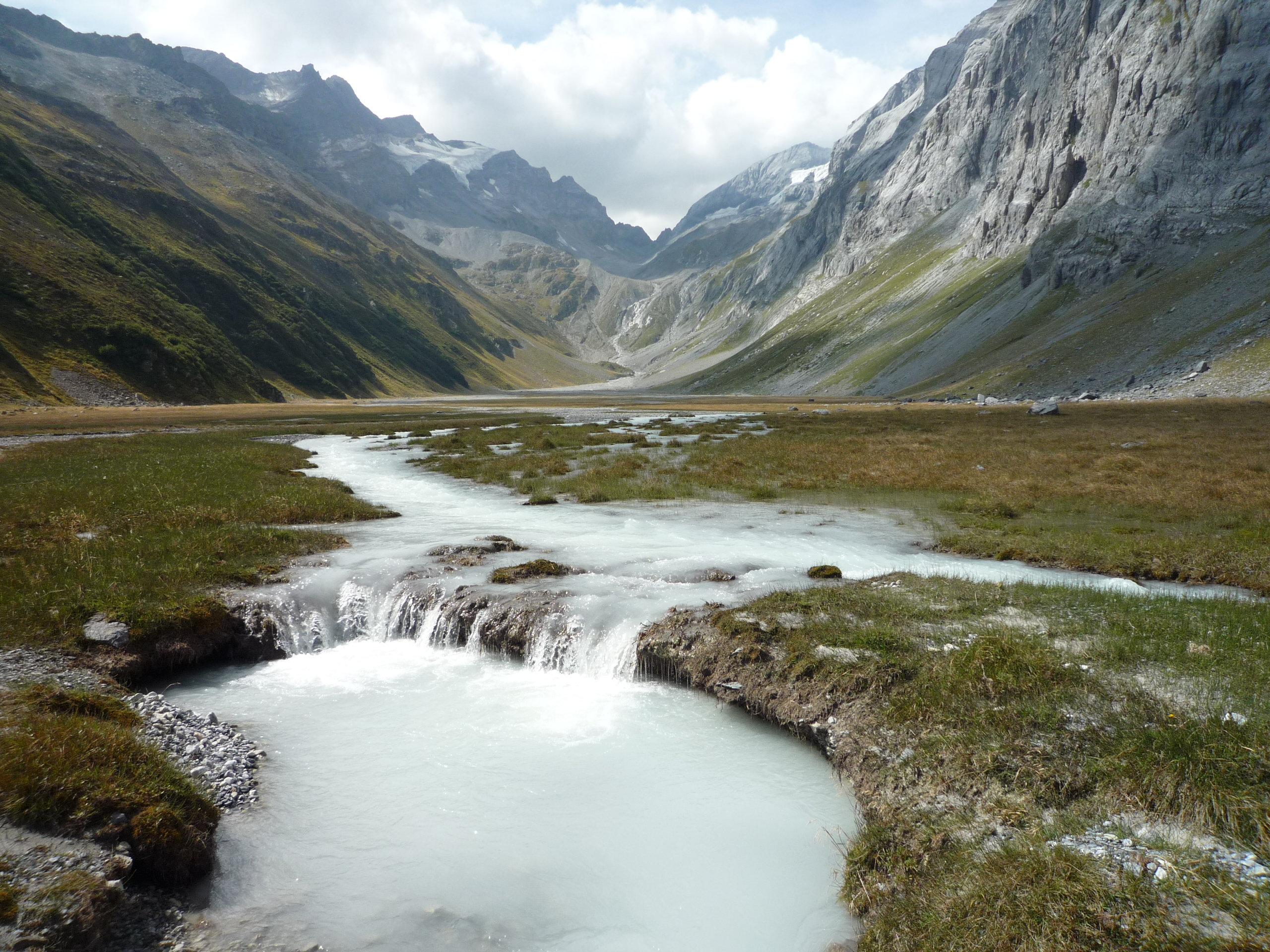 The plain at Val Frisal,1900 meters above sea level seen from East to West towards Cavistrau Grond (above the snow field) at 3251 meters.